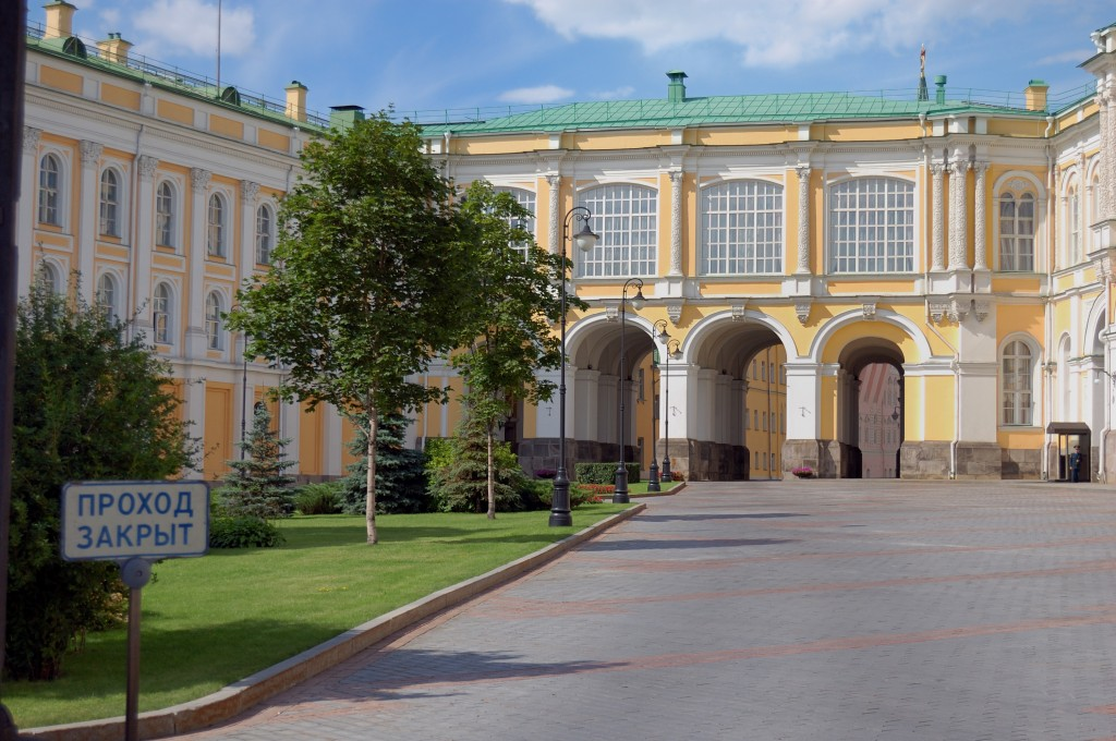 Russia, Moscow, The Kremlin